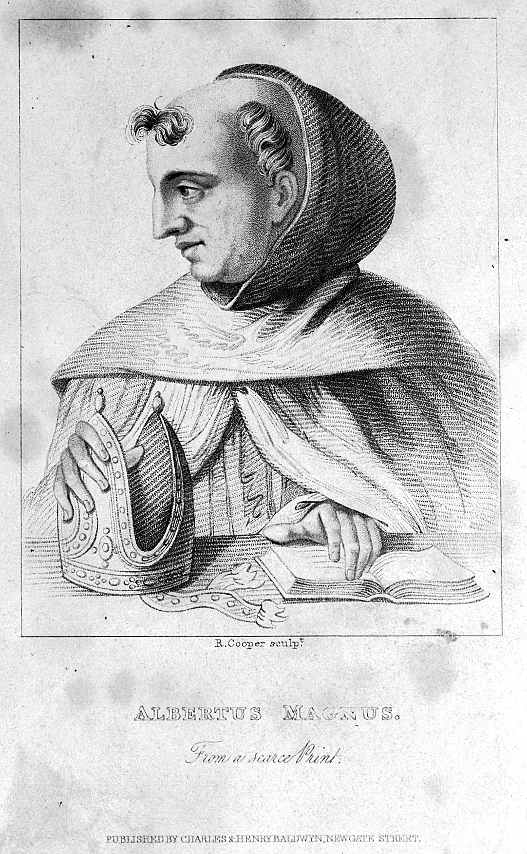 Portrait of Albertus Magnus. From a rare print. Iconographic Collections Keywords: Albertus Magnus; R. Cooper